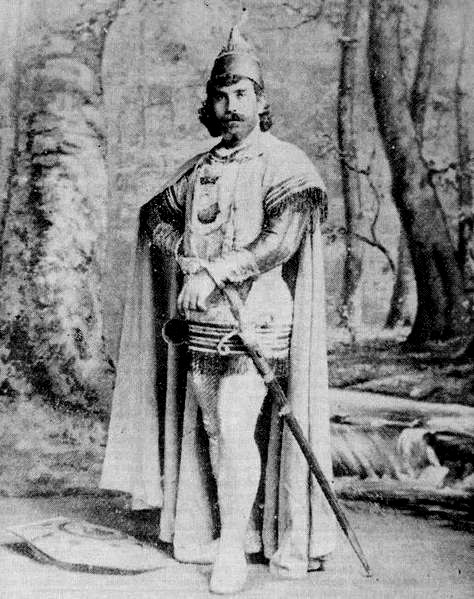 Irish tenor Joseph O'Mara in Lohengrin. Photograph taken 1894-5